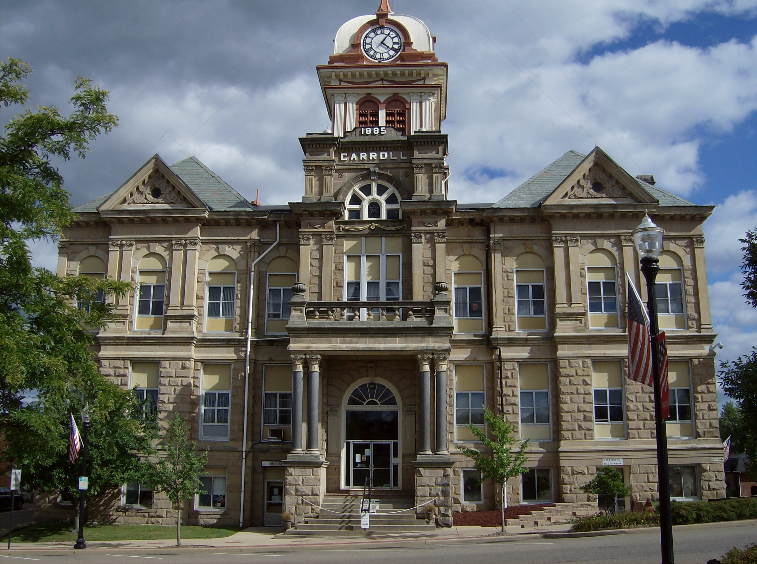 Façade of the Carroll County Courthouse, located at 119 S. Lisbon Street in downtown Carrollton, Ohio, United States. Built in 1885, the Carroll County Courthouse is listed on the National Register of Historic Places.